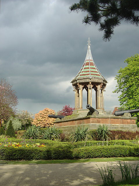 Nottingham Arboretum - Chinese Bell and Sebastopol cannons. In the pagoda-like pavilion. Hanging Chinese bell, and the cannons (captured at the Battle of Sebastopol in the Crimean War), were trophies of one of the local regiments, the name of which is sadly obscure on the inscription. At this scale the photo does not show the fact that the lettering round the eaves of the pagoda are in Russian and Chinese characters. See 790121 for a closer view